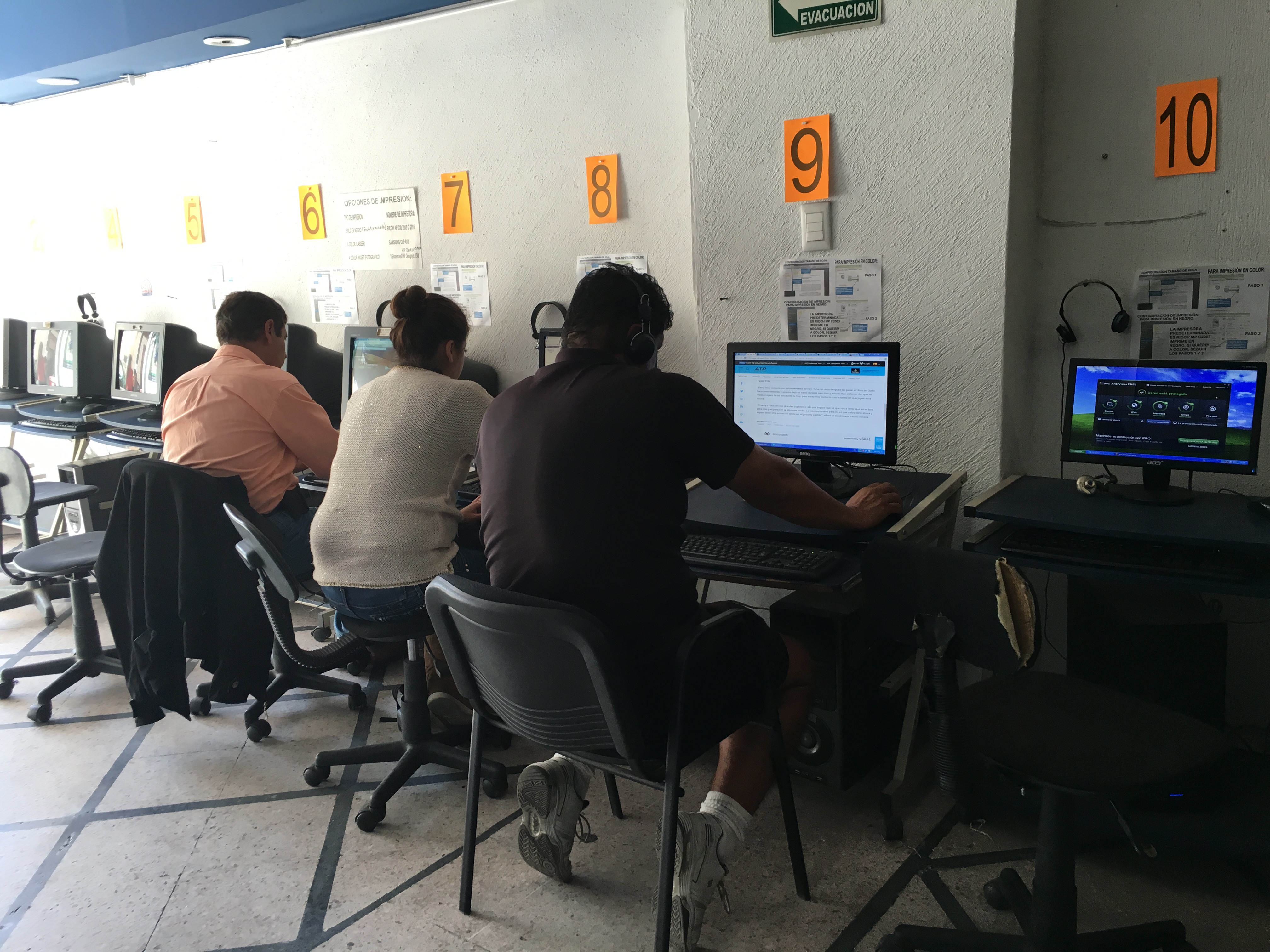 Internet cafe in Apizaco, Mexico